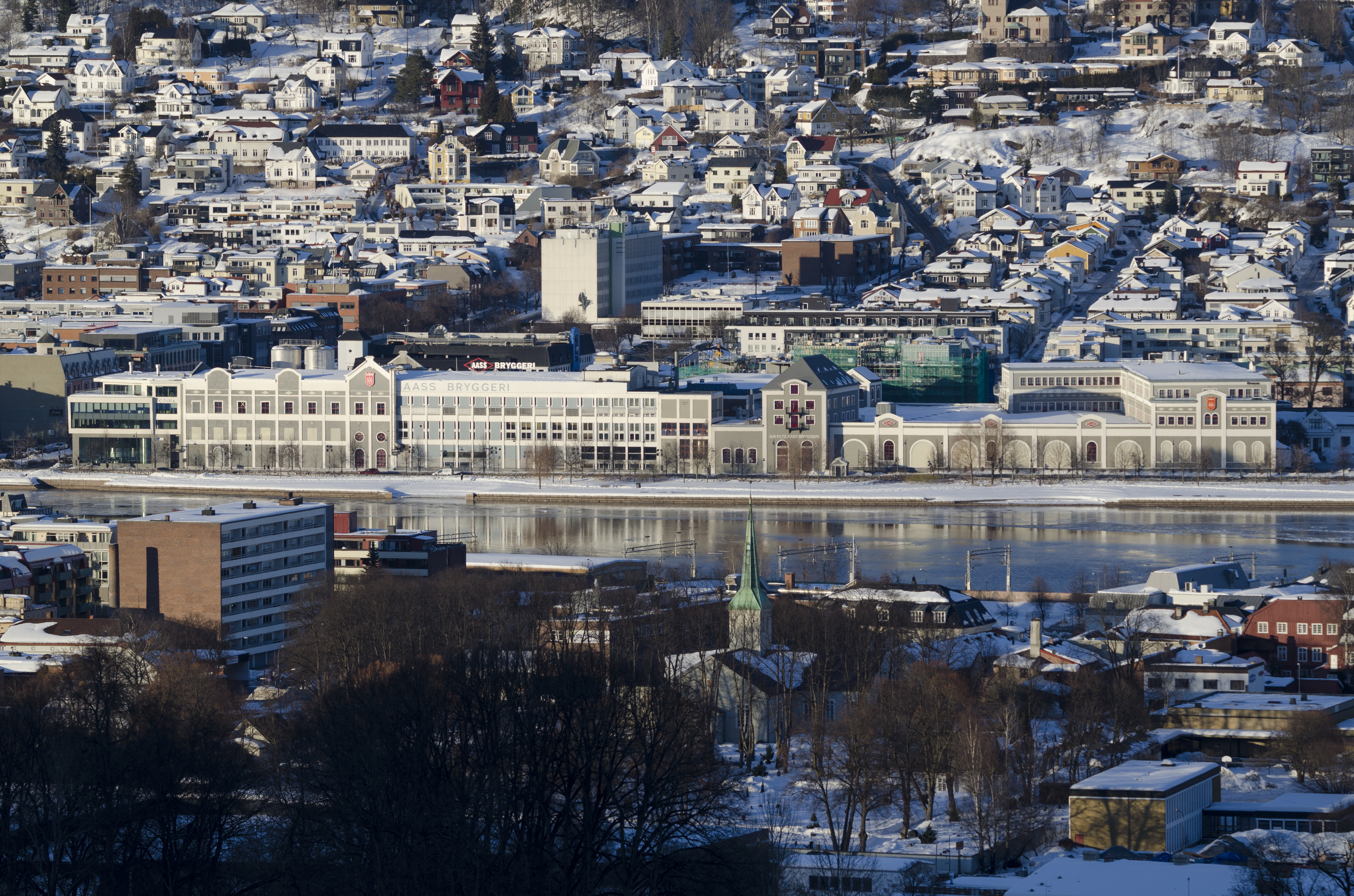 Aass brewery in March 2018.